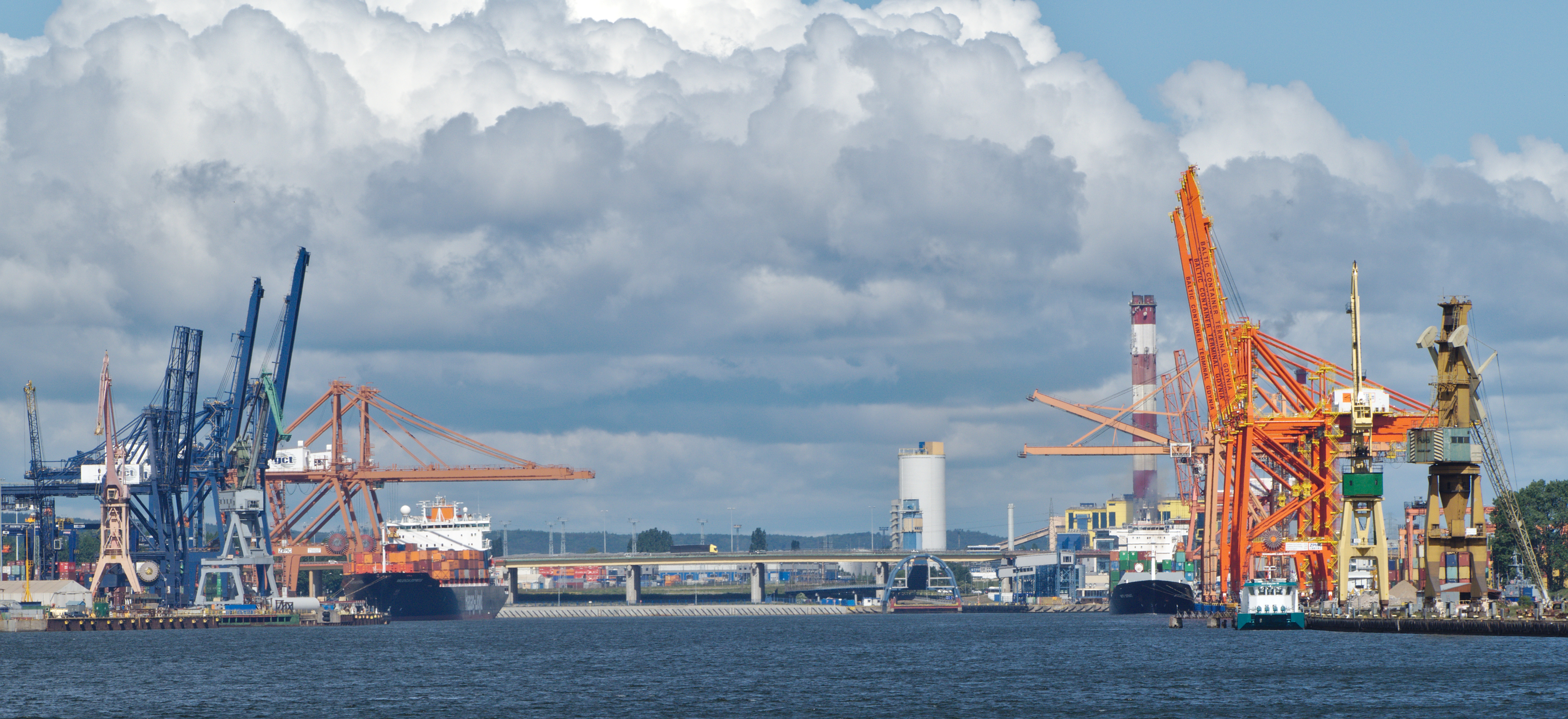 Gdynia Container Terminal on the left and Baltic Container Terminal on the right. Eugeniusza Kwiatkowskiego street can be seen in the middle.